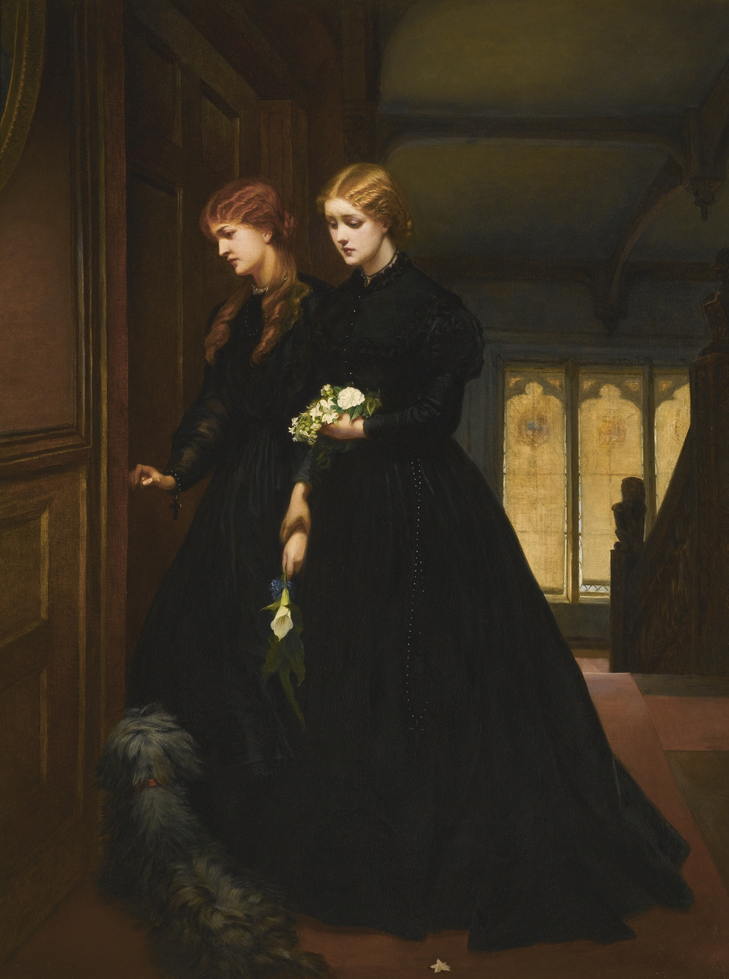 The present picture depicts two demure young sisters visiting the death-bed of a relative accompanied by a sympathetic dog. (see source)